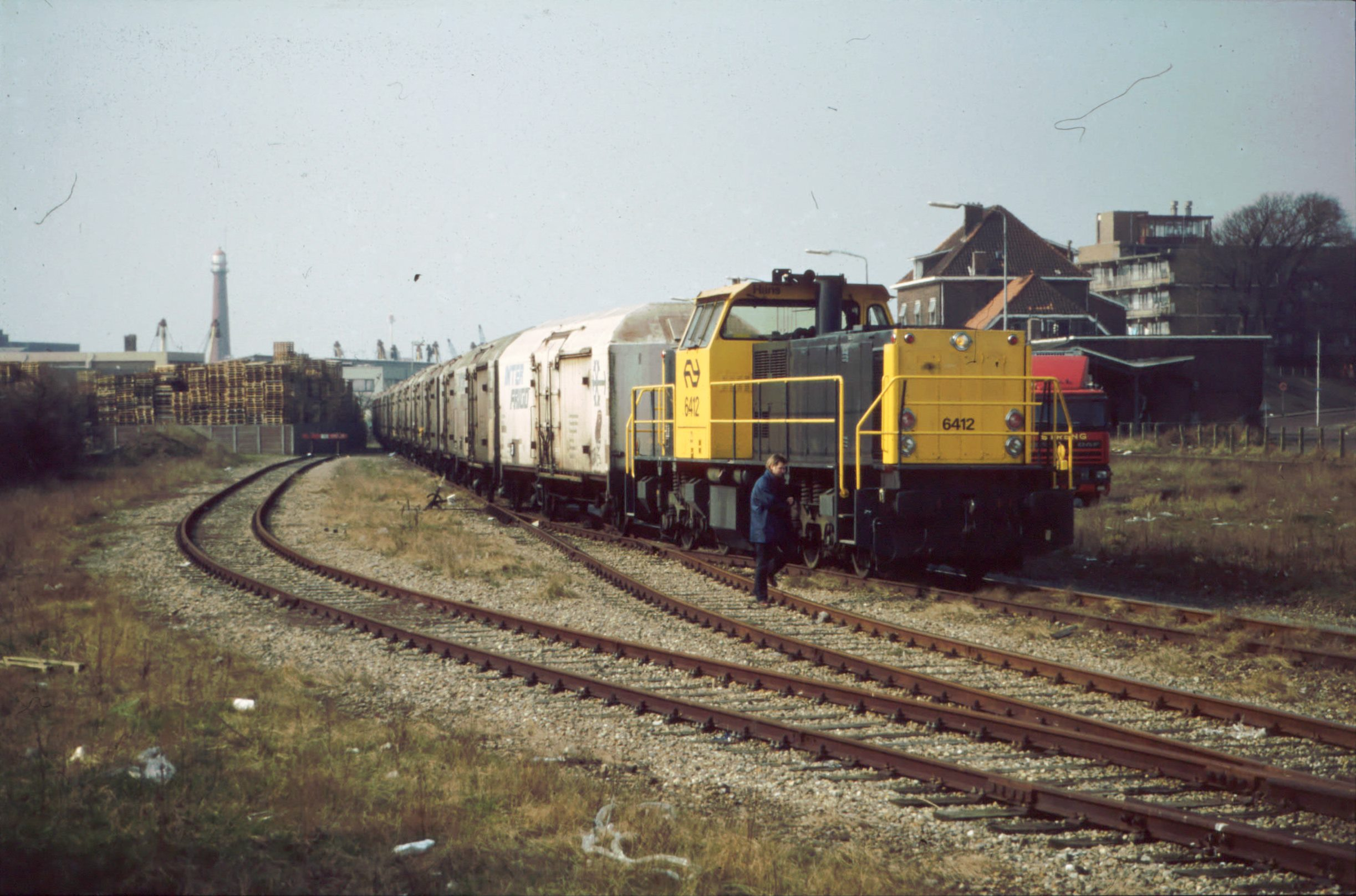 6412 met vistrein IJmuiden. Maart 1993